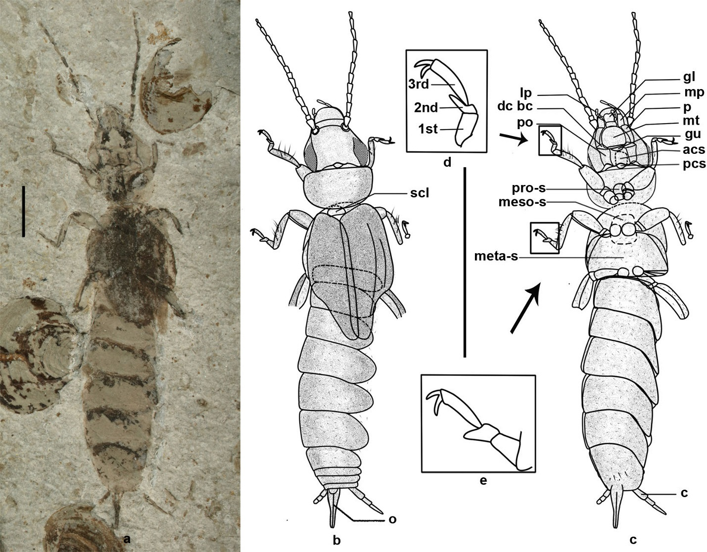 Belloderma arcuata gen. et sp. nov., holotype, No. CNU-Der-NN2008002. a, photo. b, Dorsal view. c, Ventral view. d, Enlarged drawing of foreleg tarsi. e, Enlarged drawing of mid-leg tarsi. Scale bar, 2 mm. scl, scutellum; p, pygidium; o, ovipositor; gl, glossae; mp, maxillary palpus; p, palpifer; mt, mentum; gu, gula; lp, labial palpus; dc and bc, disticardo and basicardo; po, postocciput; c, cercus; acs, anterior cervical sclerites; pcs, posterior cervical sclerites; pro-s, pro-sternum; meso-s, meso-sternum; meta-s, meta-sternum.